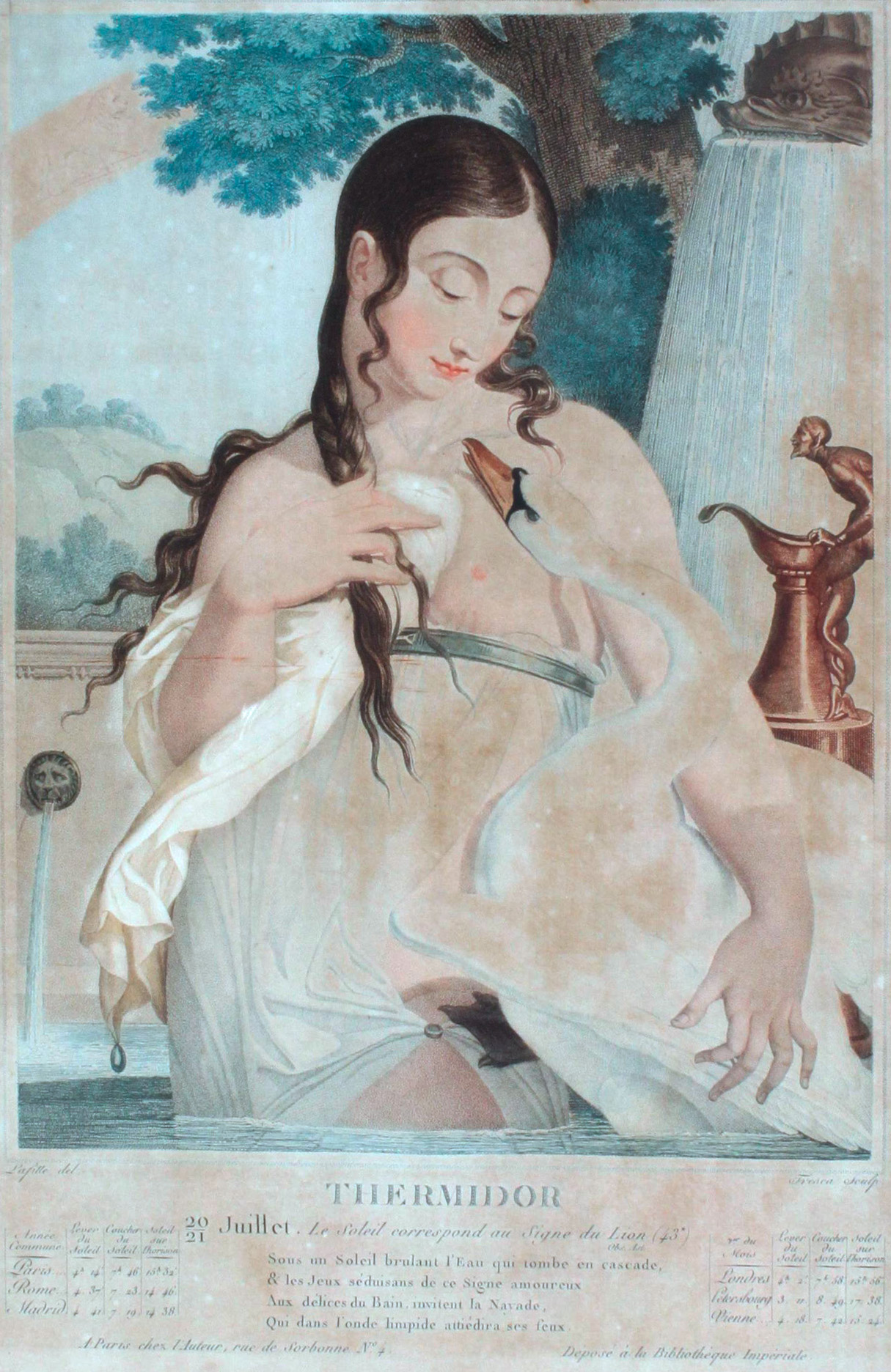 Allegory of Thermidor (republican French calendar month). Author: Louis Lafitte (1770-1828); French public domain, National Library & Bureau of Measures. At the upper left is the Lion, zodiac sector where the Sun is at this time of year.